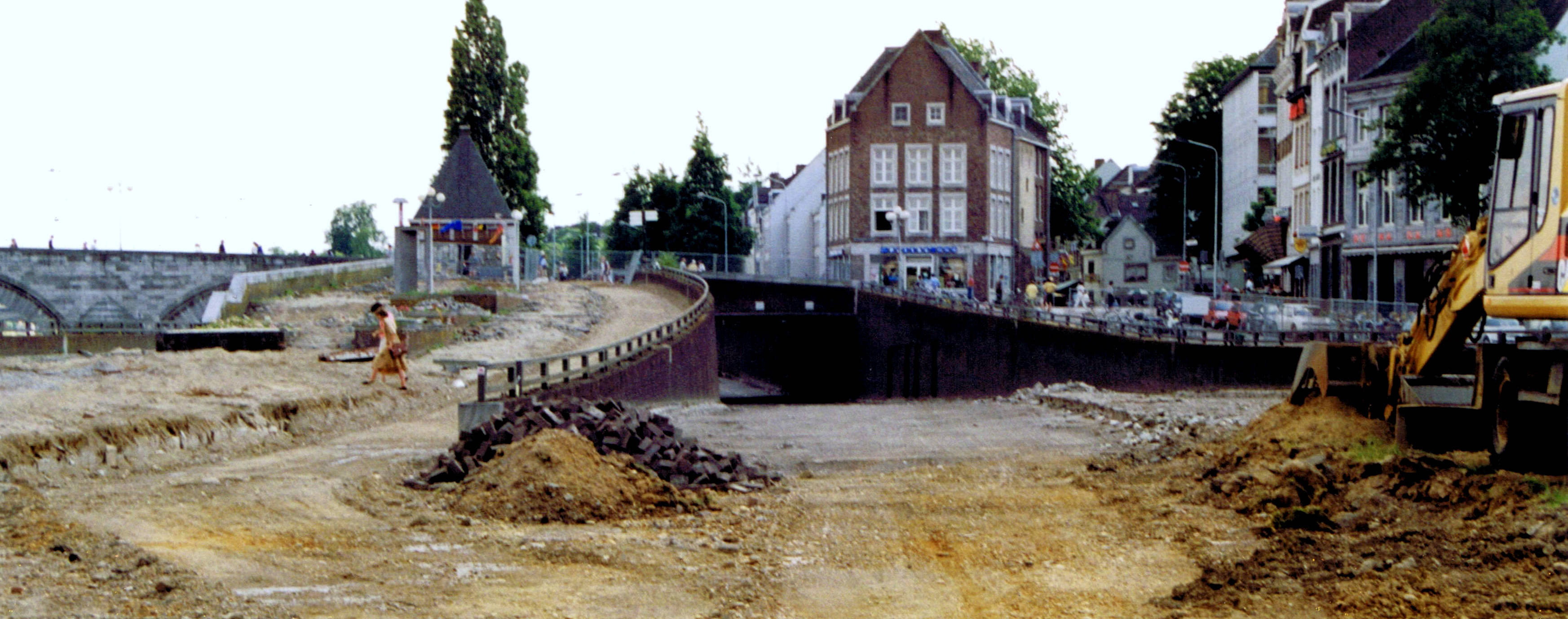 2001-07-08 in Maastricht; Maasboulevard under reconstruction.